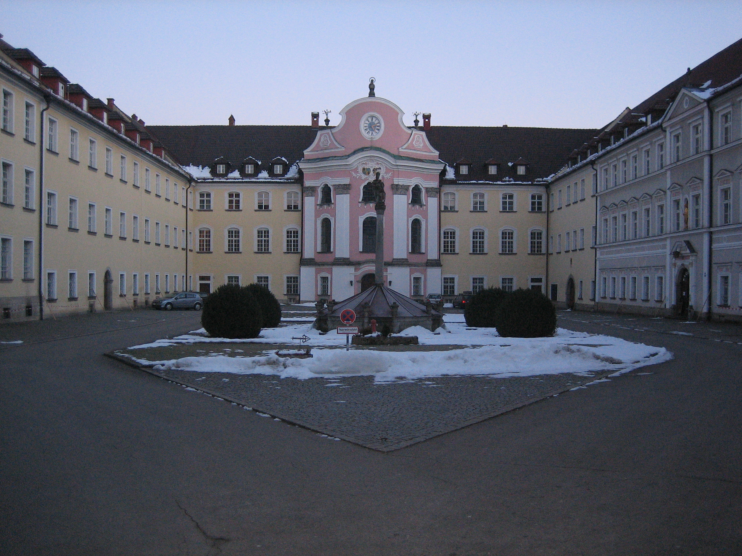 Abbey of St. Michael at Metten in Germany dt: Abtei Metten oder Kloster Metten) I took this picture on Januar 3rd 2006 and release it into Pd.